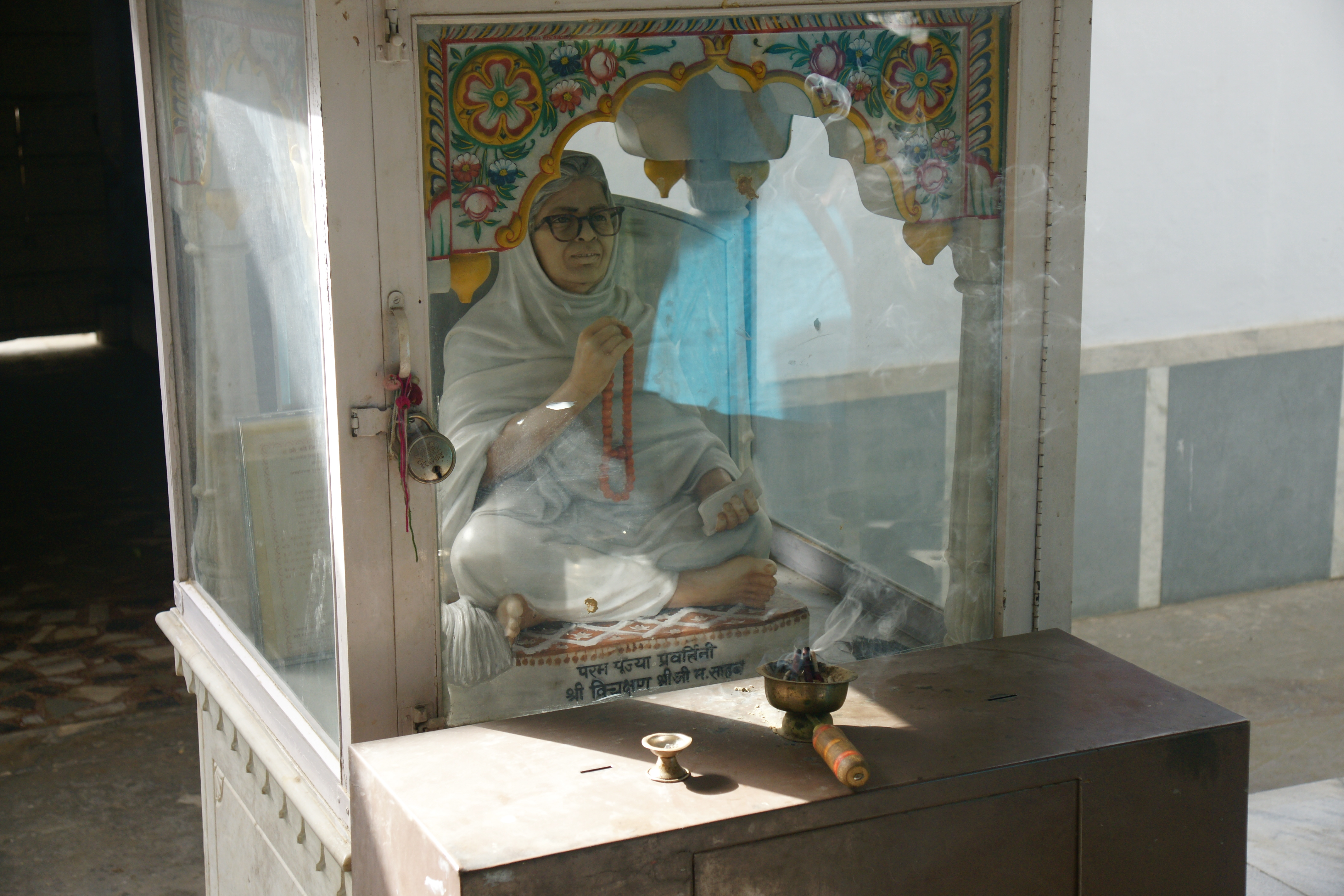 Jaipur Jain temple, female renouncer with rosary bead mala japamala